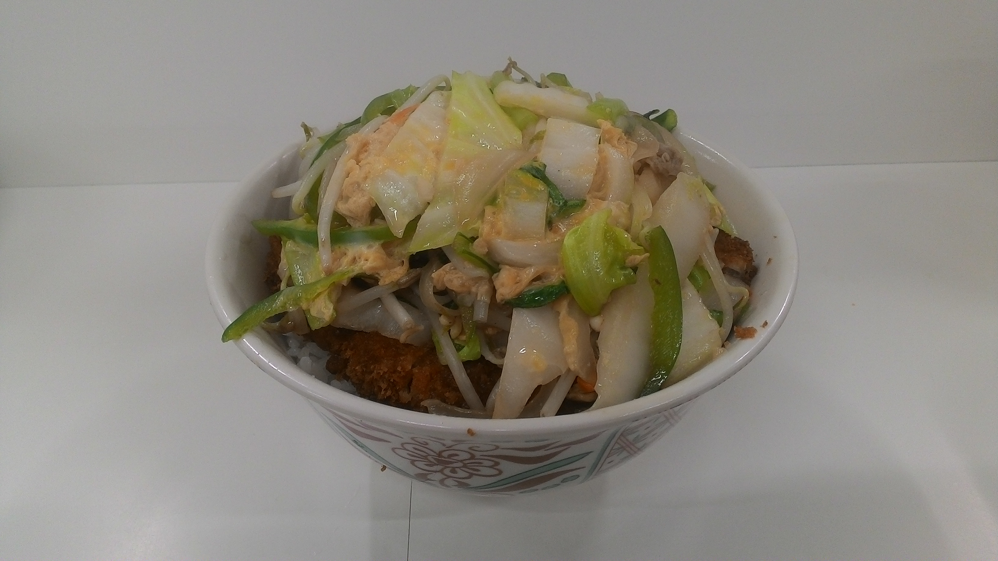 Typical Okinawan Katsudon from Highway Drive-in. Egg-added chop suey over thin crispy tonkatsu.